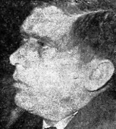 Slobodan Penezić-Krcun (1918-1964), Serbian politician